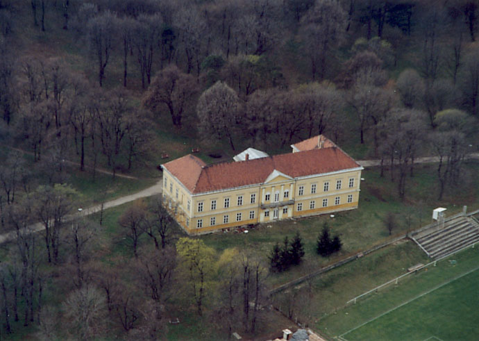 Palace - Bodajk - Hungary - Europe